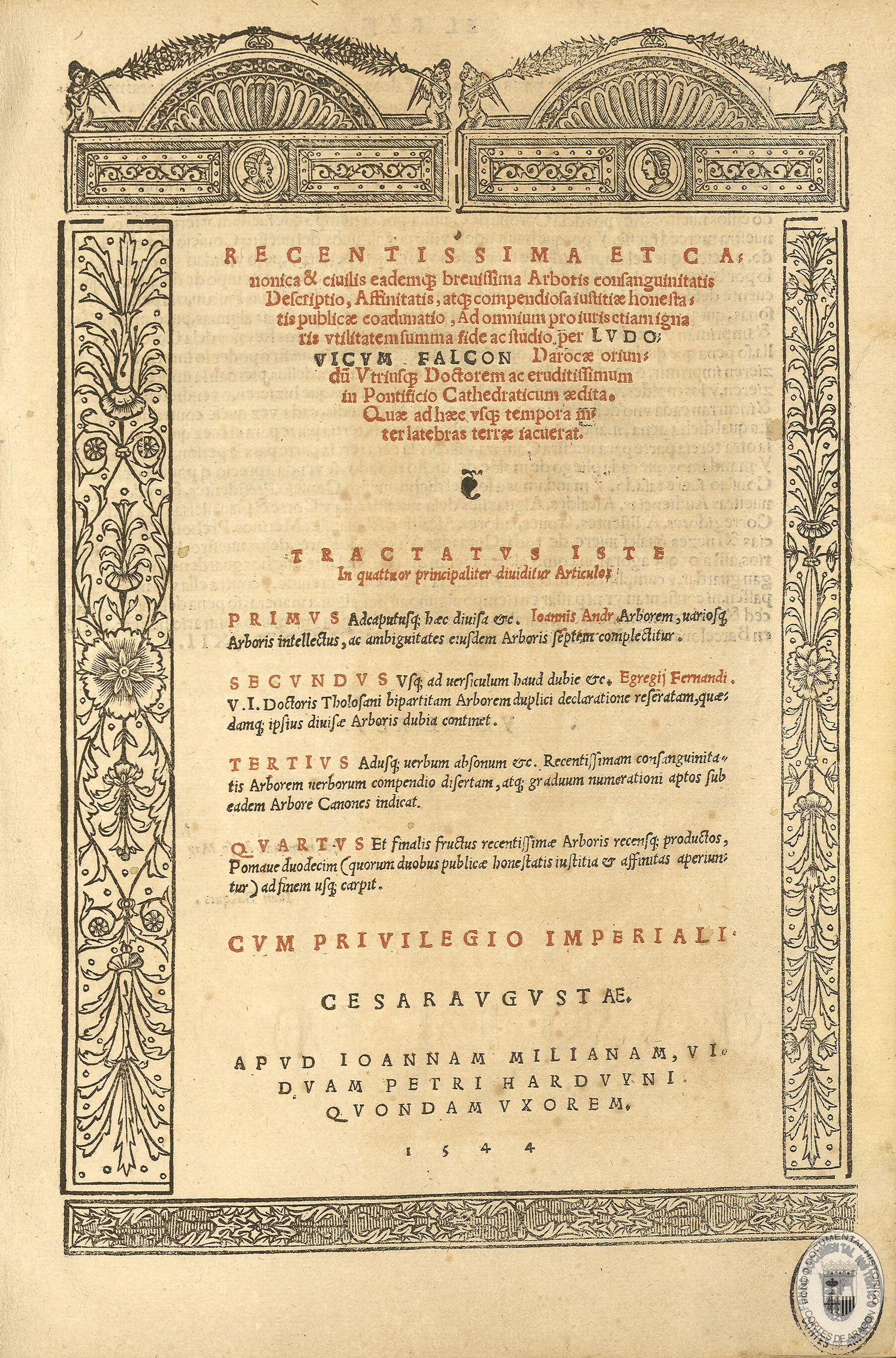 Recentissima et canonica and civilis... obra impresa en Zaragoza, por Juana Millán, 1544